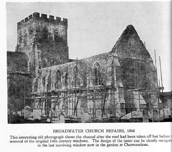 Broadwater Church during renovations, 1866. Between 1853 and 1855 Ann Thwaytes contributed funds for renovations and took away some parts of the church to incorporate into her house Charmandean at Broadwater (now demolished).